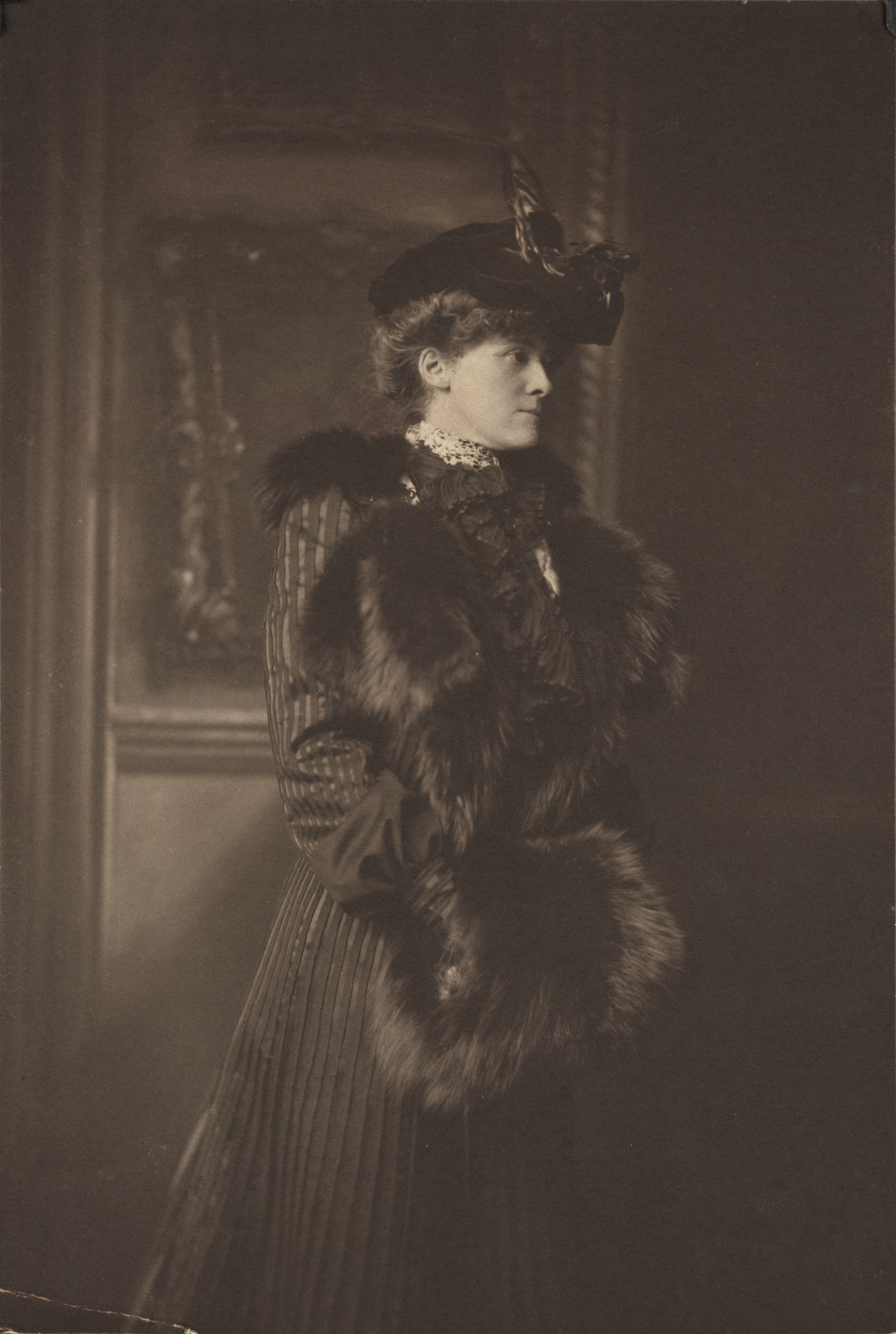 Photograph taken in Newport, Rhode Island, of author Edith Wharton, wearing hat with a feather, coat with fur trim, and a fur muff. Image courtesy of the Beinecke Rare Book & Manuscript Library, Yale University.